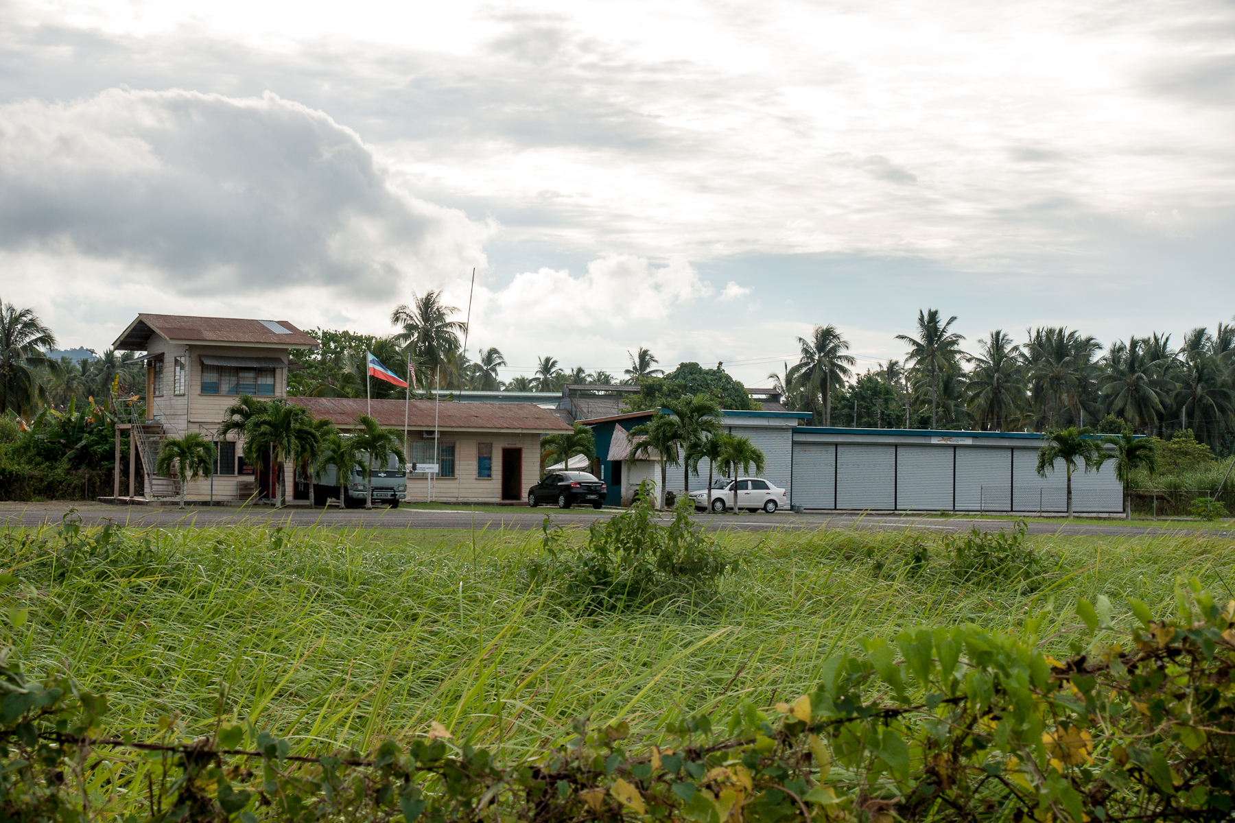 Semporna, Sabah, Malaysia: Airfield Semporna, Sabah